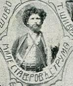 Portrait of IMARO member Mile Stavrov from Struma village